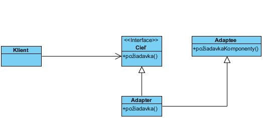 Use of class adapter